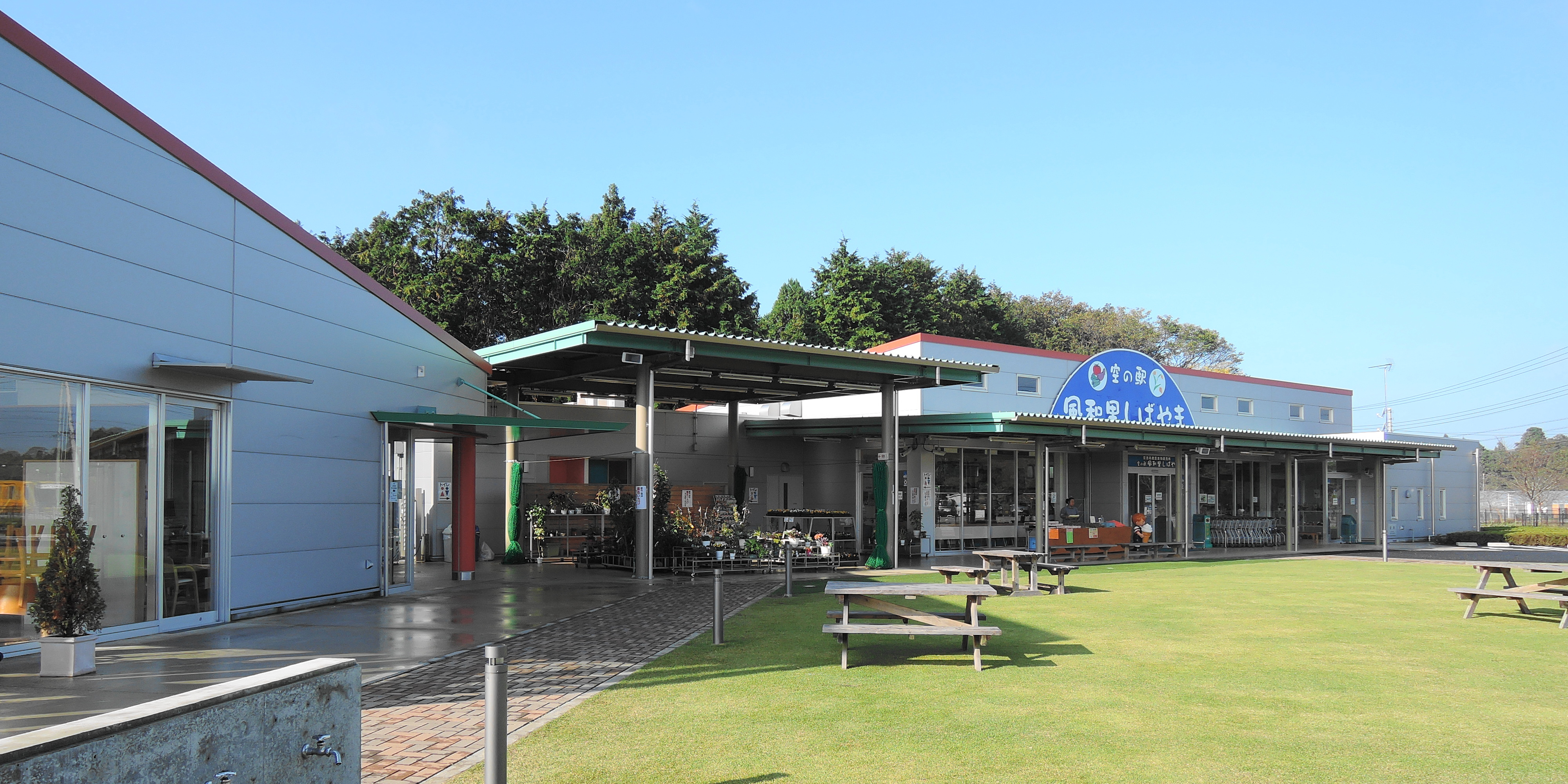 Sora no Eki Fuwari Shibayama,Chiba prefecture,Japan